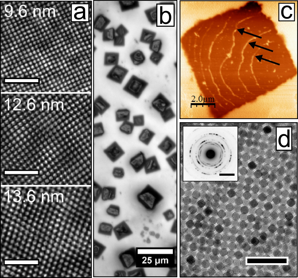 Self-assembled arrays and mesocrystals formed by the cubic iron oxide nanoparticles. (a) High resolution scanning electron microscopy (SEM) images of ordered arrays of nanocubes taken from top-surfaces of self-assembled mesocrystals. Scale bars (white): 100 nm. The images have been FFT-filtered for clarity. (b) Reflected light microscopy images of cuboidal mesocrystals composed of 9.6 nm nanocubes by a conventional drop-casting procedure. (c) Atomic force microscope (AFM) tapping-mode phase image of the surface of a single cuboidal mesocrystal. Growth steps on the crystal surface are highlighted by arrows. (d) TEM image of a multilayer of 9.6 nm nanocubes. Scale bar (black): 50 nm. The inset shows a wide angle electron diffraction pattern of the area. Scale bar (inset): 5 nm-1.